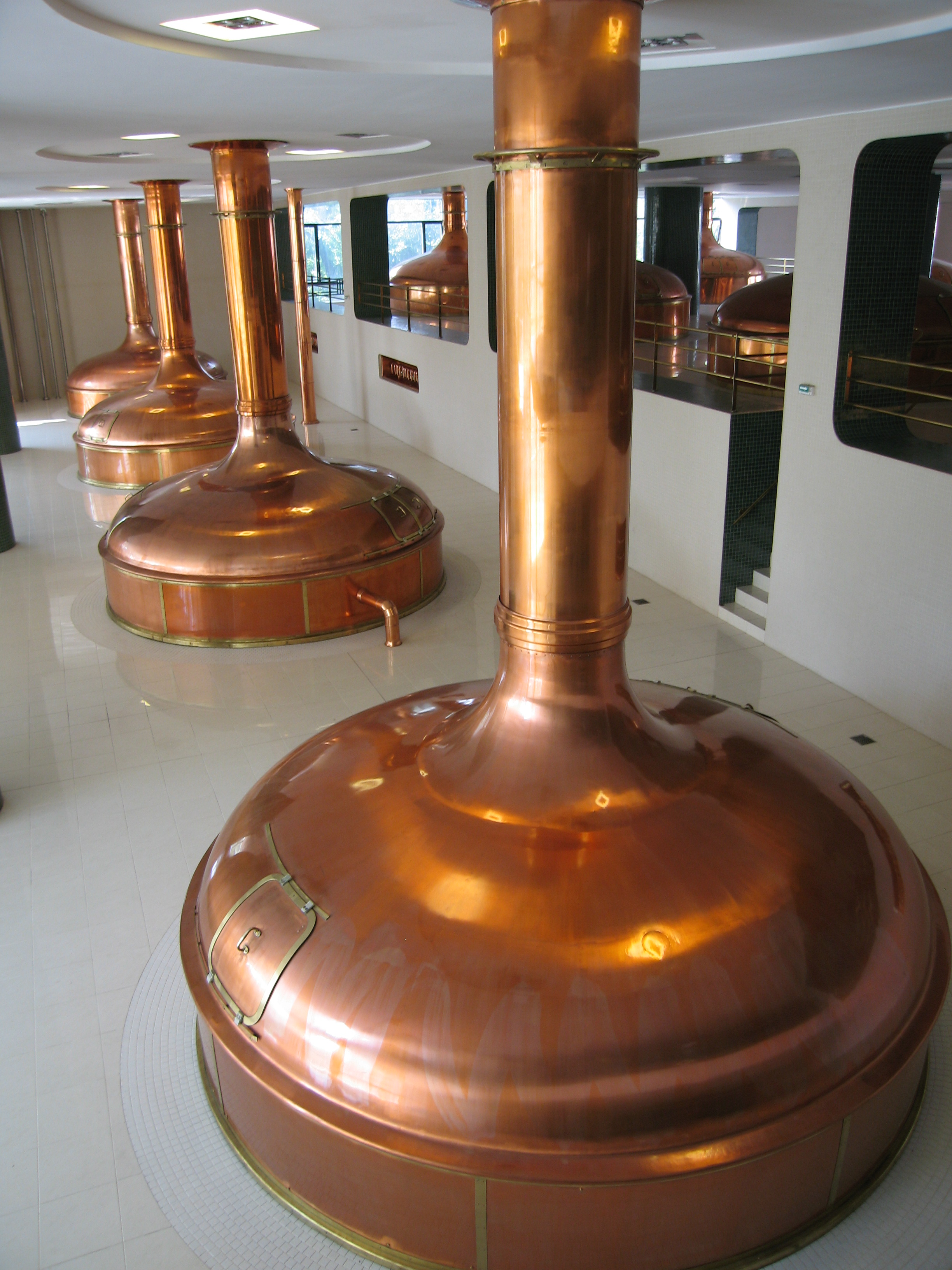 Tour of Plzeňský Prazdroj (Pilsner Urquell) brewery in Plzeň, Czech Republic.